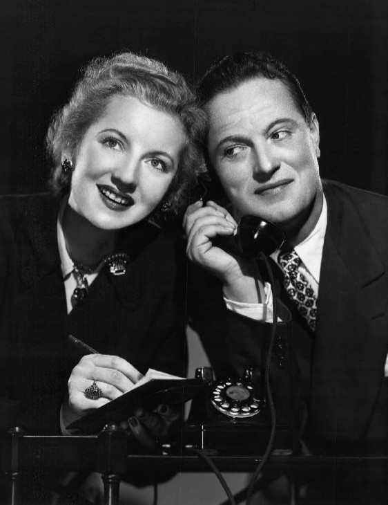 Photo of Joseph Curtin and Alice Frost from the radio program Mr. and Mrs. North.